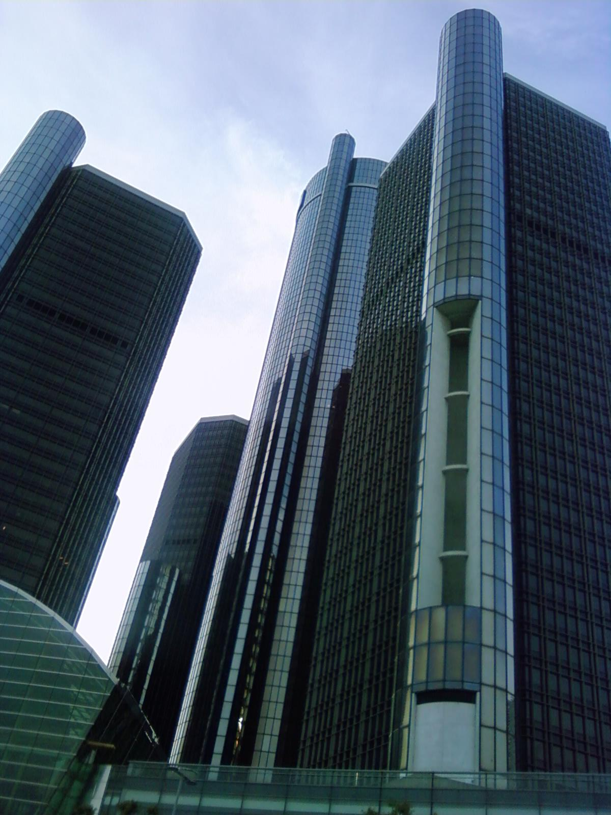 The Renaissance Center from the Detroit International Riverfront